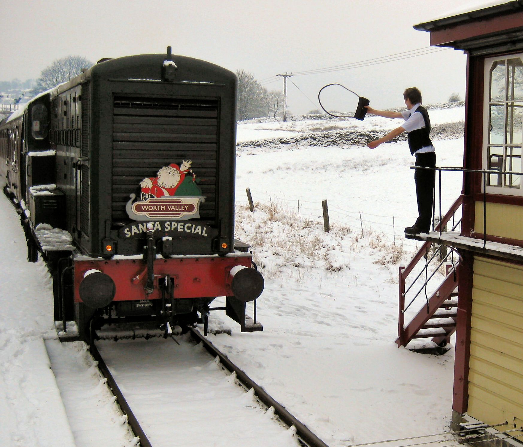 Token ring being presented from signal box on the Keighley and Worth Valley Railway.